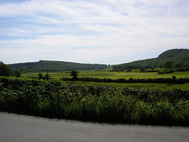 Silverdale Moss and nearby fields Arnside Tower on the skyline guards the gap between Middlebarrow and Arnside Knott